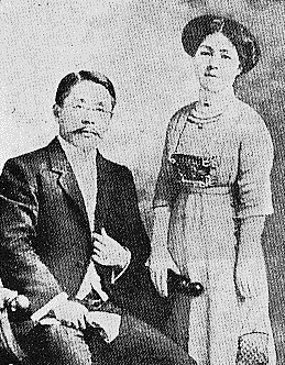 Diplomat Kōki Hirota (広田弘毅, 1878-1948), the future Japanese prime minister, and his wife Shizuko, in London, 1909.